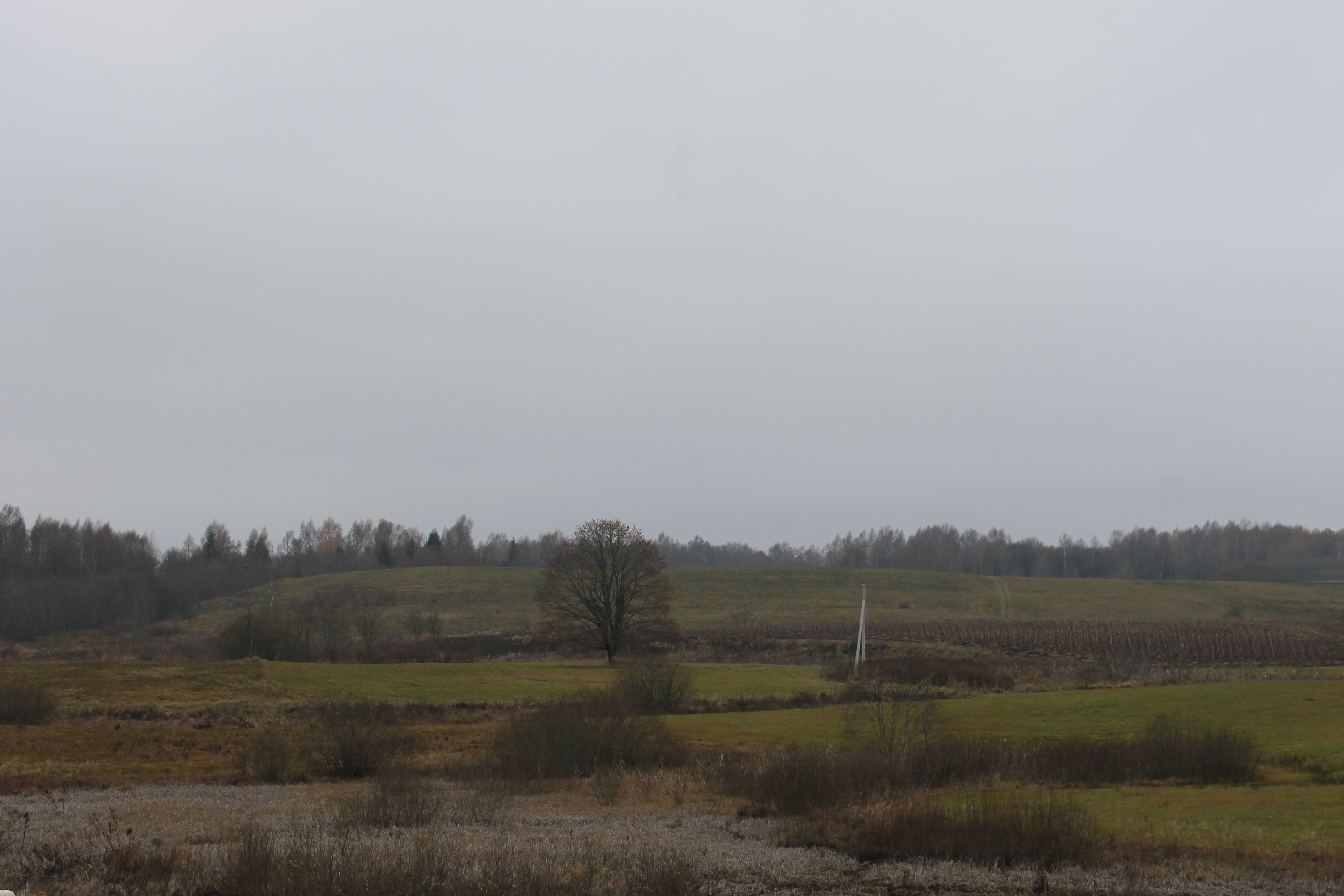 Pūčkoriai Hillfort, Plungė district, Lithuania